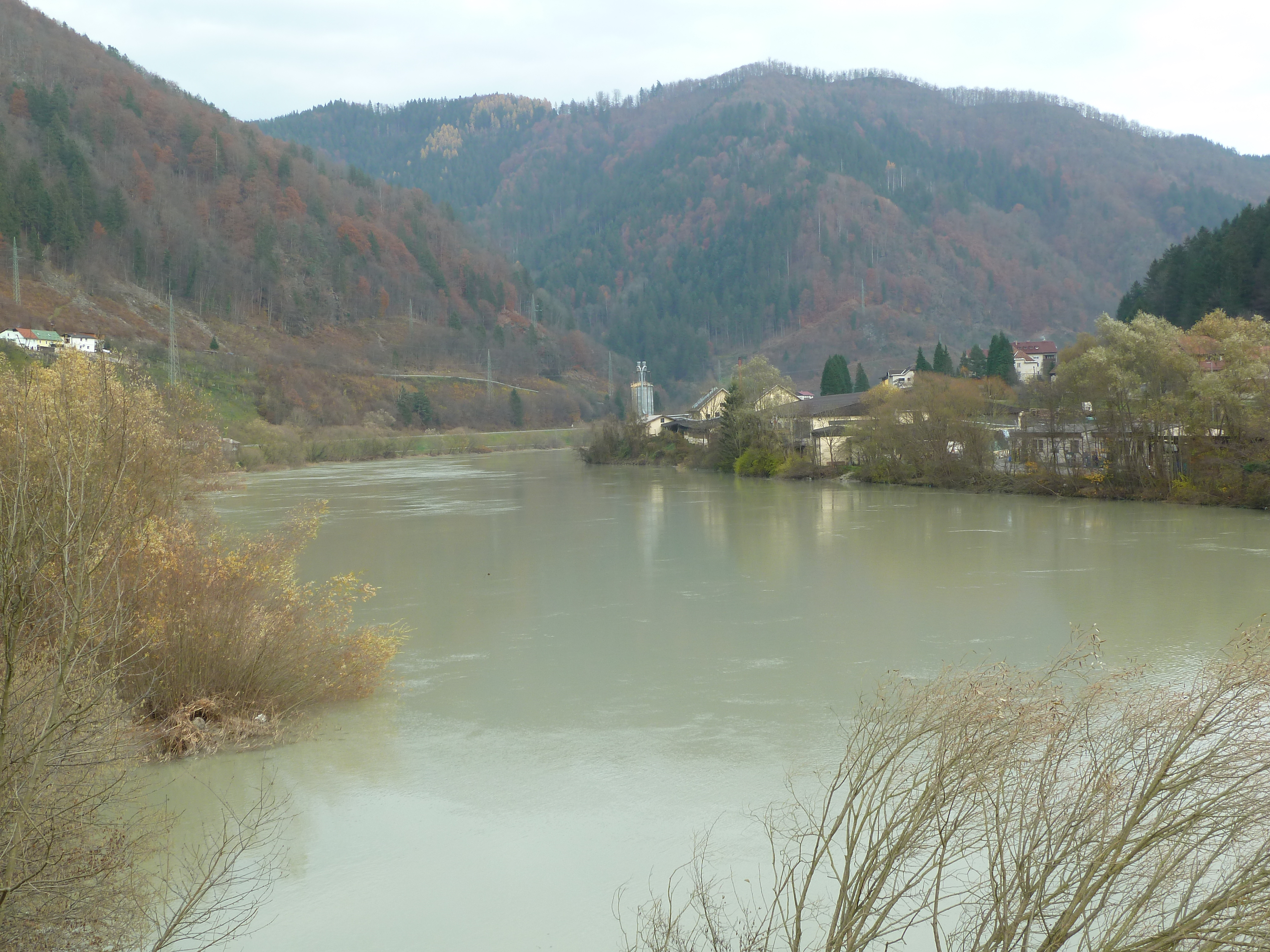 The Drava from the bridge to Podvelki, Slovenian Styria.